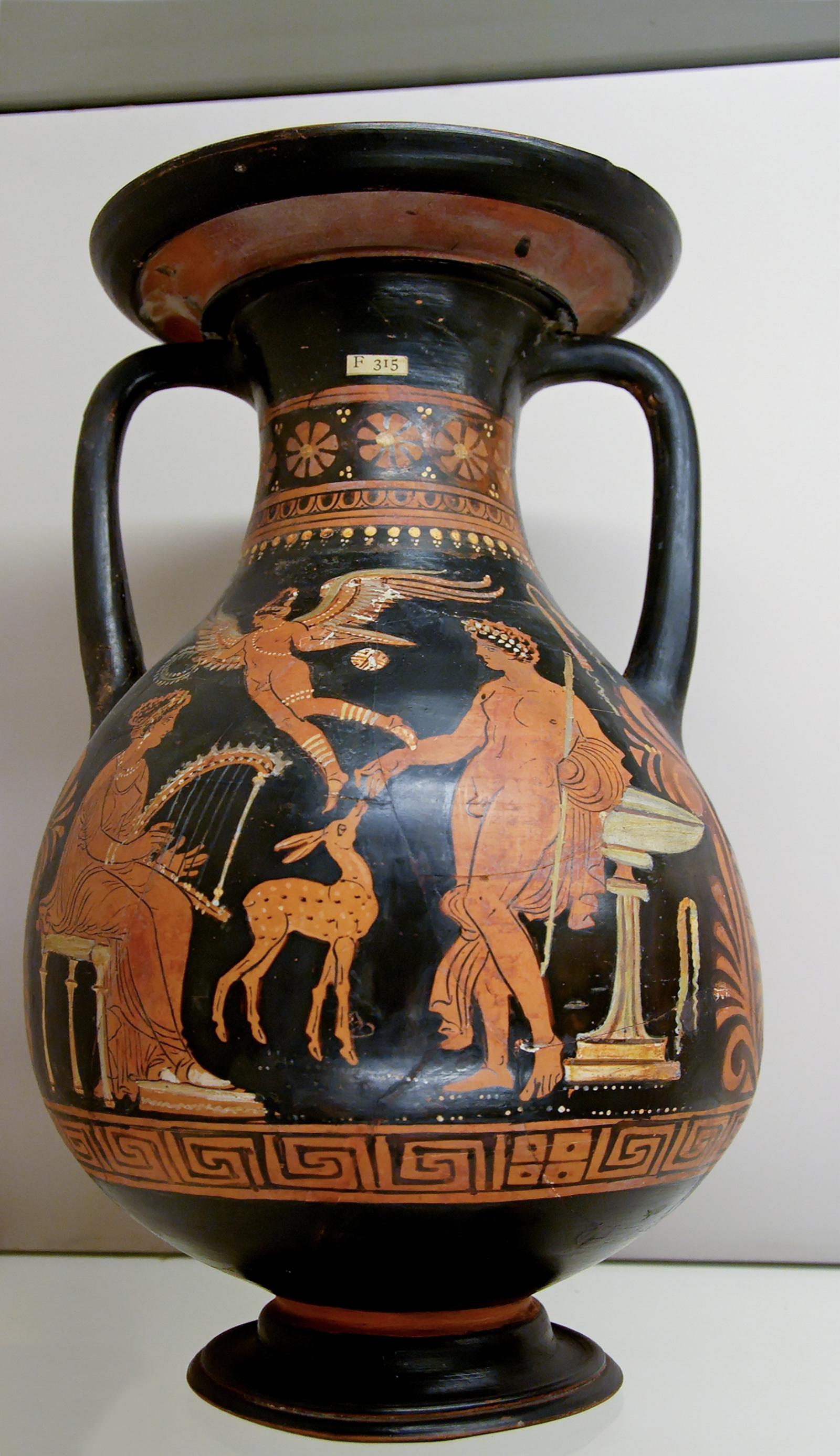 A woman holding a harp, Eros and a youth with a fawn. Apulian red-figured pelike, ca. 320–310 BC. From Anzi.